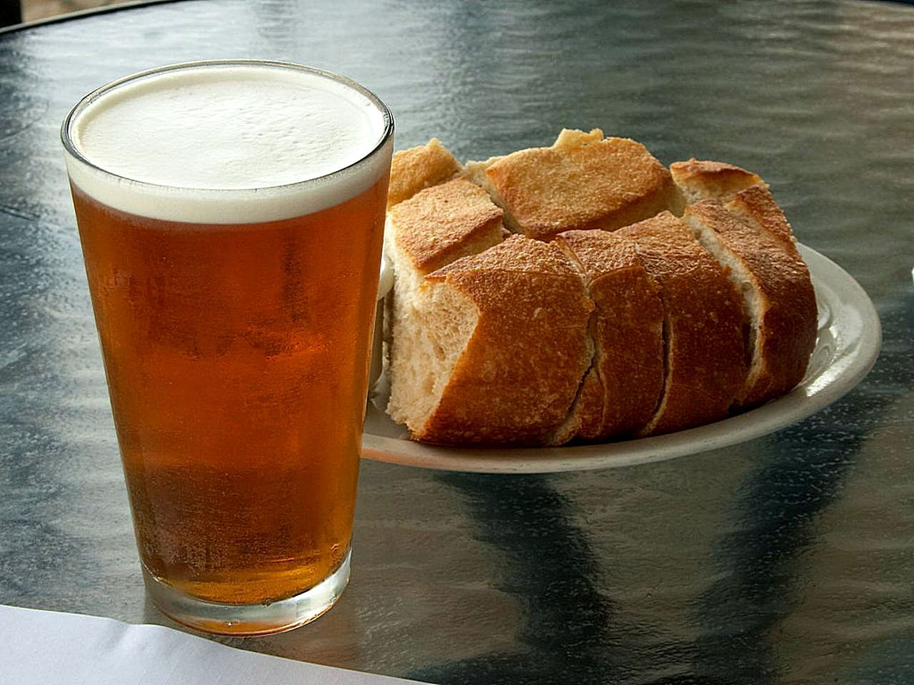 Image title: Beer and bread Image from Public domain images website